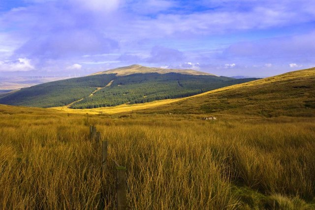 Meikle Bin Taken on a beautiful day from the top of the Campsie Fells.